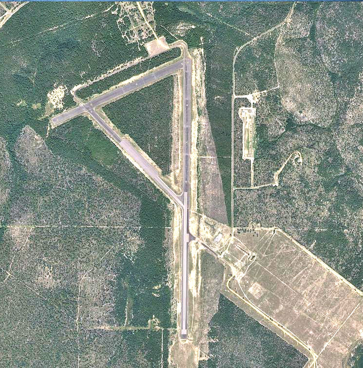 USGS digital orthophoto of Wagner Field, an airfield in Florida